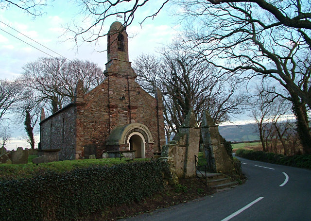 Ballaugh Old Church - Isle of Man. This tiny church, still in regular use, stands about two kilometres north of Ballaugh Village.